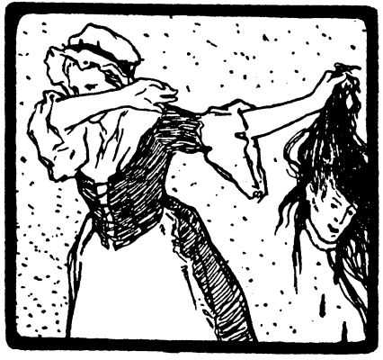 Illustration by Otto Ubbelohde to the fairy tale Sweetheart Roland